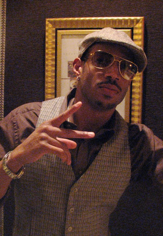 Marlon Wayans at the Wynn Resort and Casino, Las Vegas